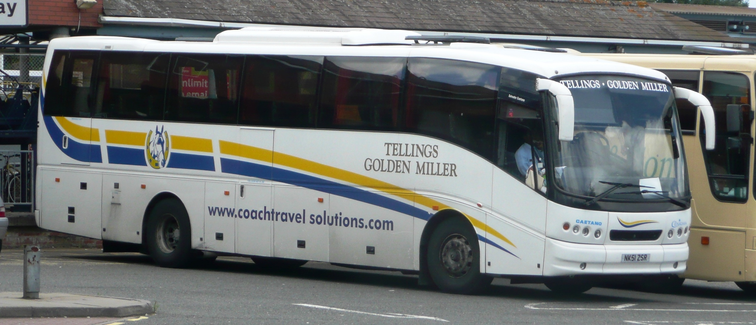 Tellings Golden Miller coach NK51 ZSR at Guildford (Surrey) railway station on rail replacement work. The coach is owned by TGM subsidiary "Classic Coaches"